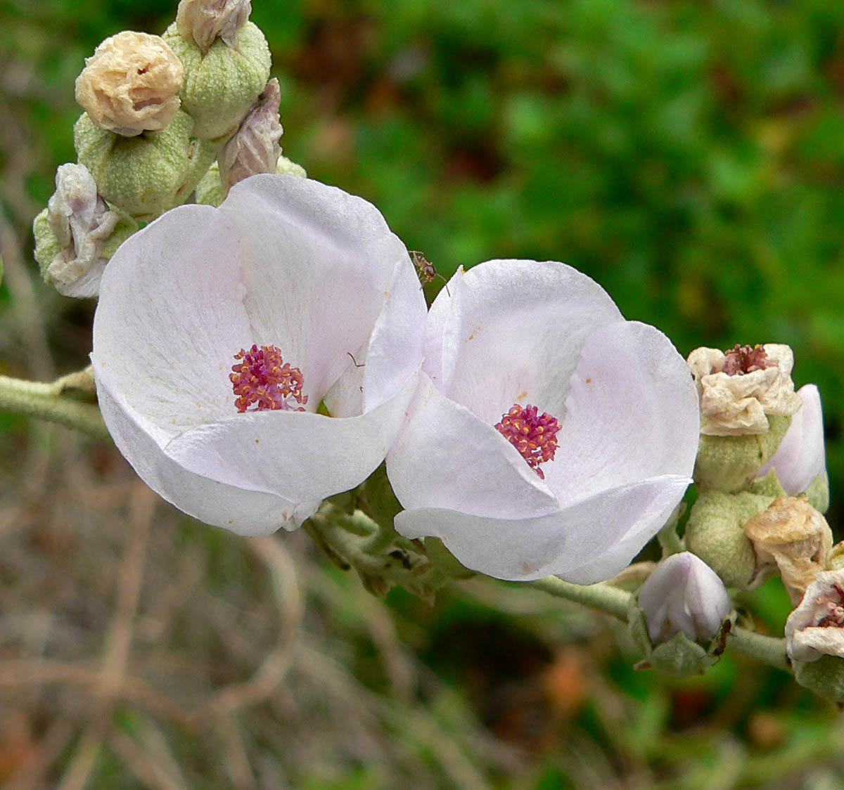 Photo of Malacothamnus fasciculatus var. nuttallii at the Regional Parks Botanic Garden